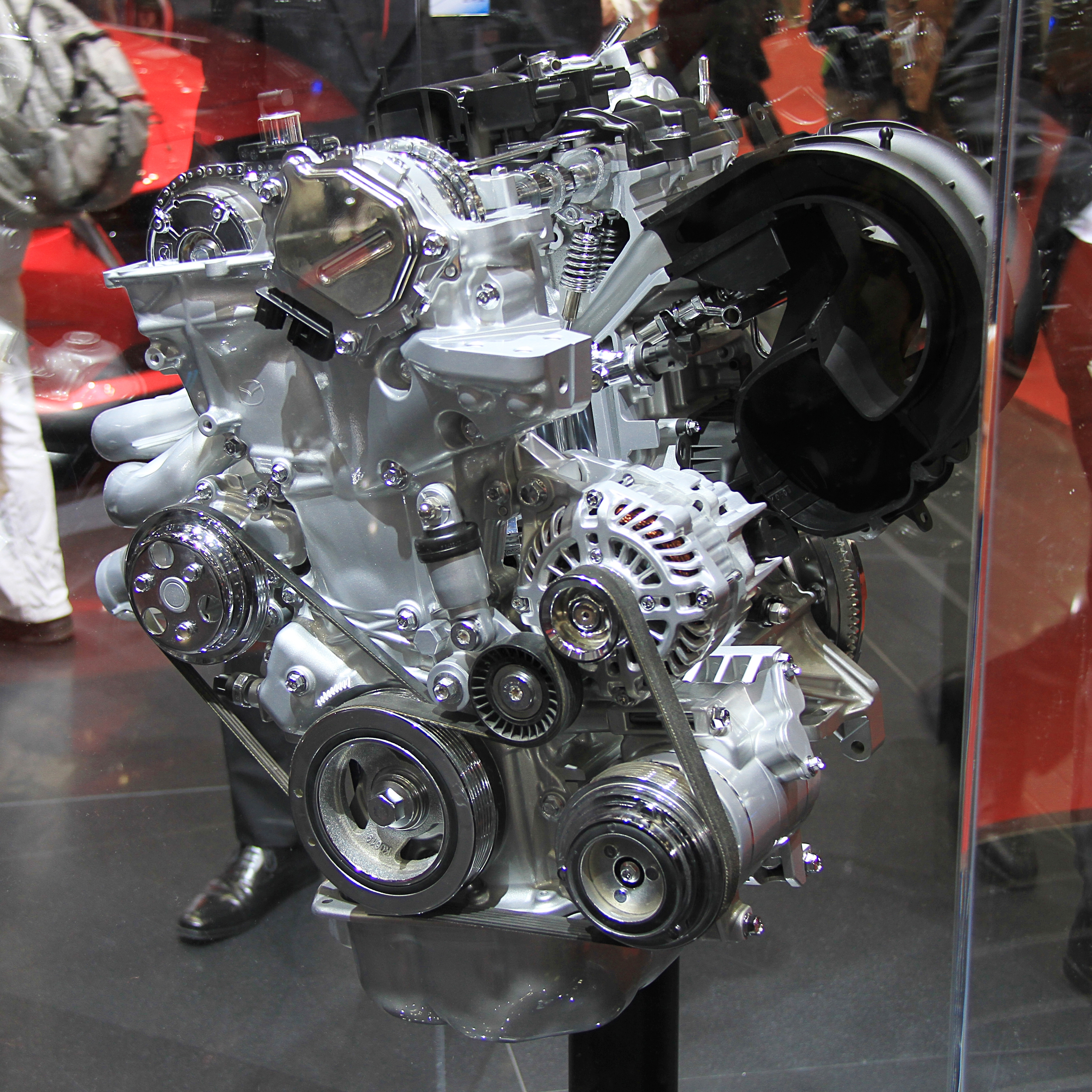 Mazda Skyactiv-G 2.0